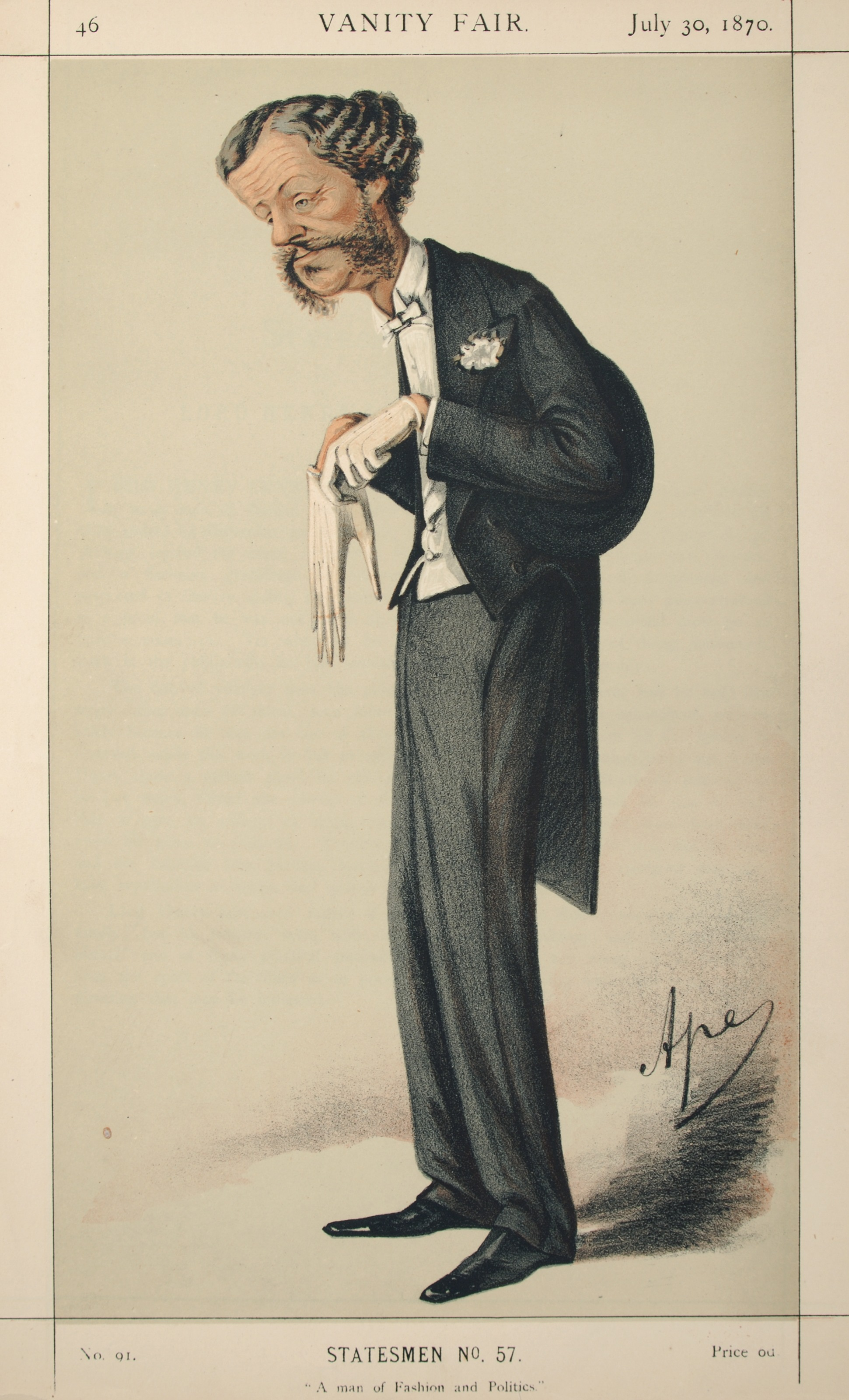 Statesmen No.57: Caricature of Lord Henry Lennox. Caption reads: "A man of Fashion and Politics."